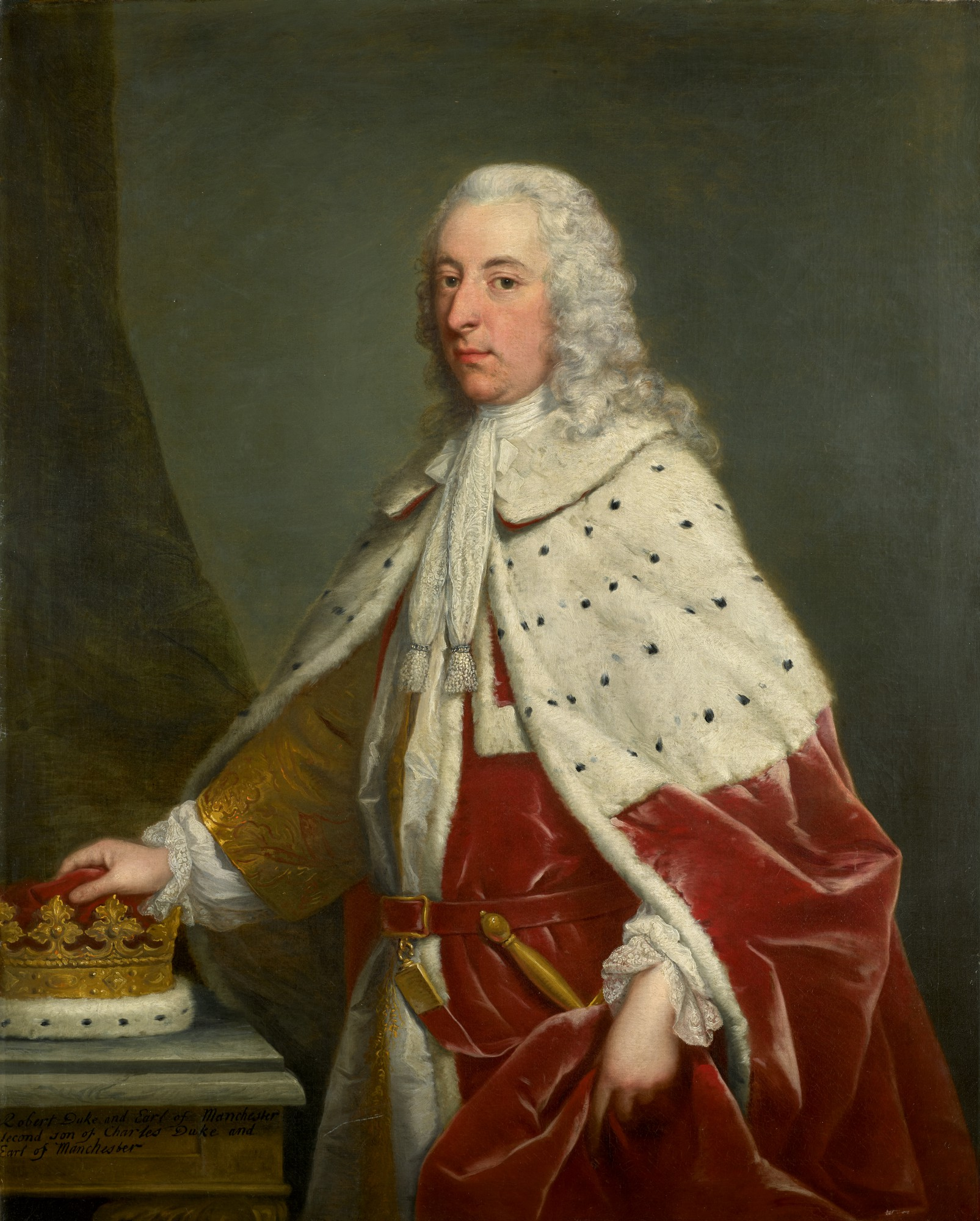 Portrait of Robert Montagu, 6th Earl and 3rd Duke of Manchester (1710-62), three-quarter-length, wearing State robes, with a ducal coronet by Andrea Soldi, oil on canvas, 127.3 x 102 cm.; 50 1/8 x 40 1/8 in.